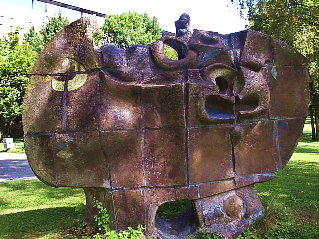 Plasik "Blumen am Wege" von Reinhart Wolke im Patientengarten im Klinikum Großhadern in München